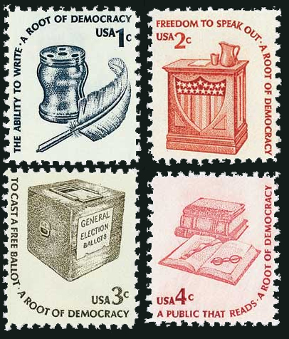 First four Americana stamps issued in 1977